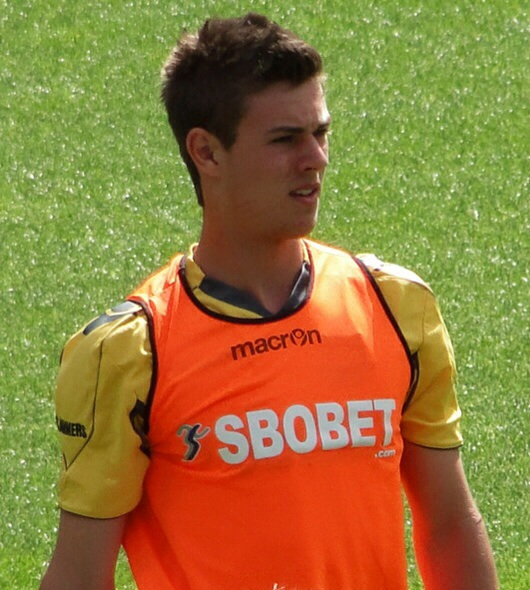 West Ham United player Dylan Tombides before West Ham's Premier League game against Sunderland, Boleyn Ground, London.